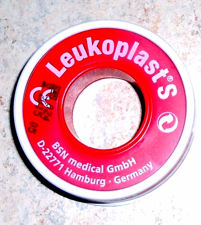 Leukoplast